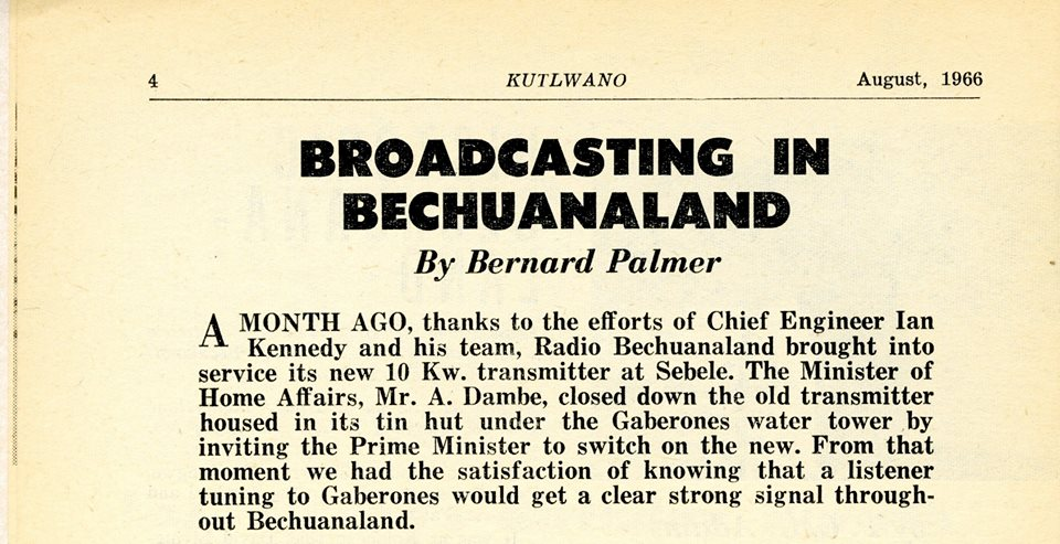 Broadcasting in Bechuanaland in 60s